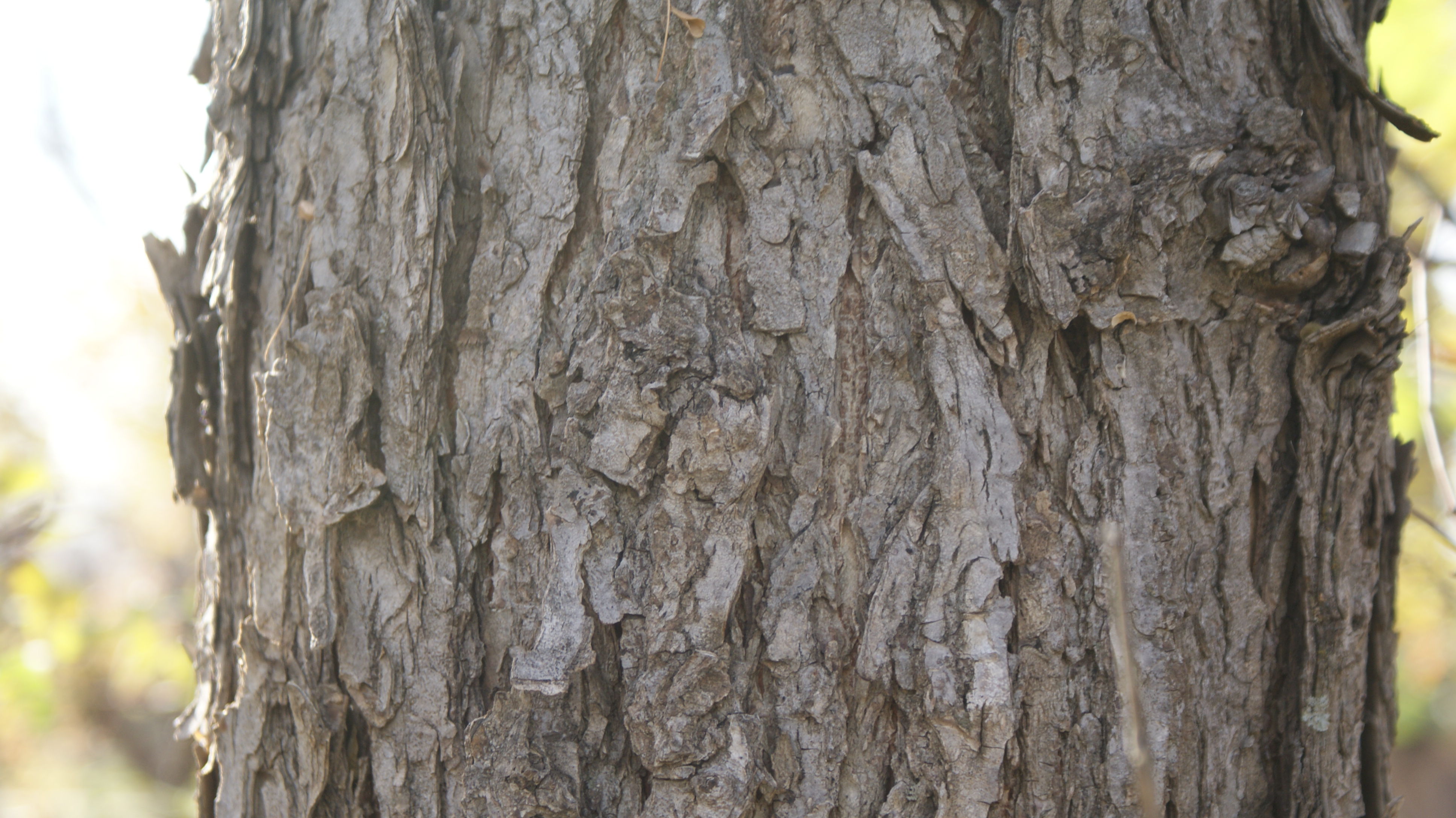 Elm Bark of American elm (Ulmus americana) City of Saskatoon Dutch elm disease (DED) SOS Elms